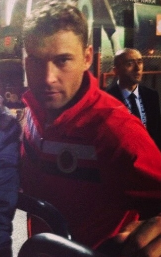 Duško Tošić